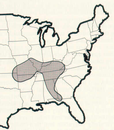 The original of this image showing the range of the endangered Gray bat (myotis grisescens)) is found at: [1]